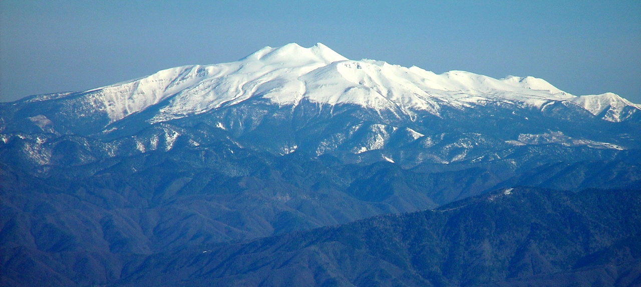 Mount Norikura seen from 7th station of Mount Kisokoma in Japan.